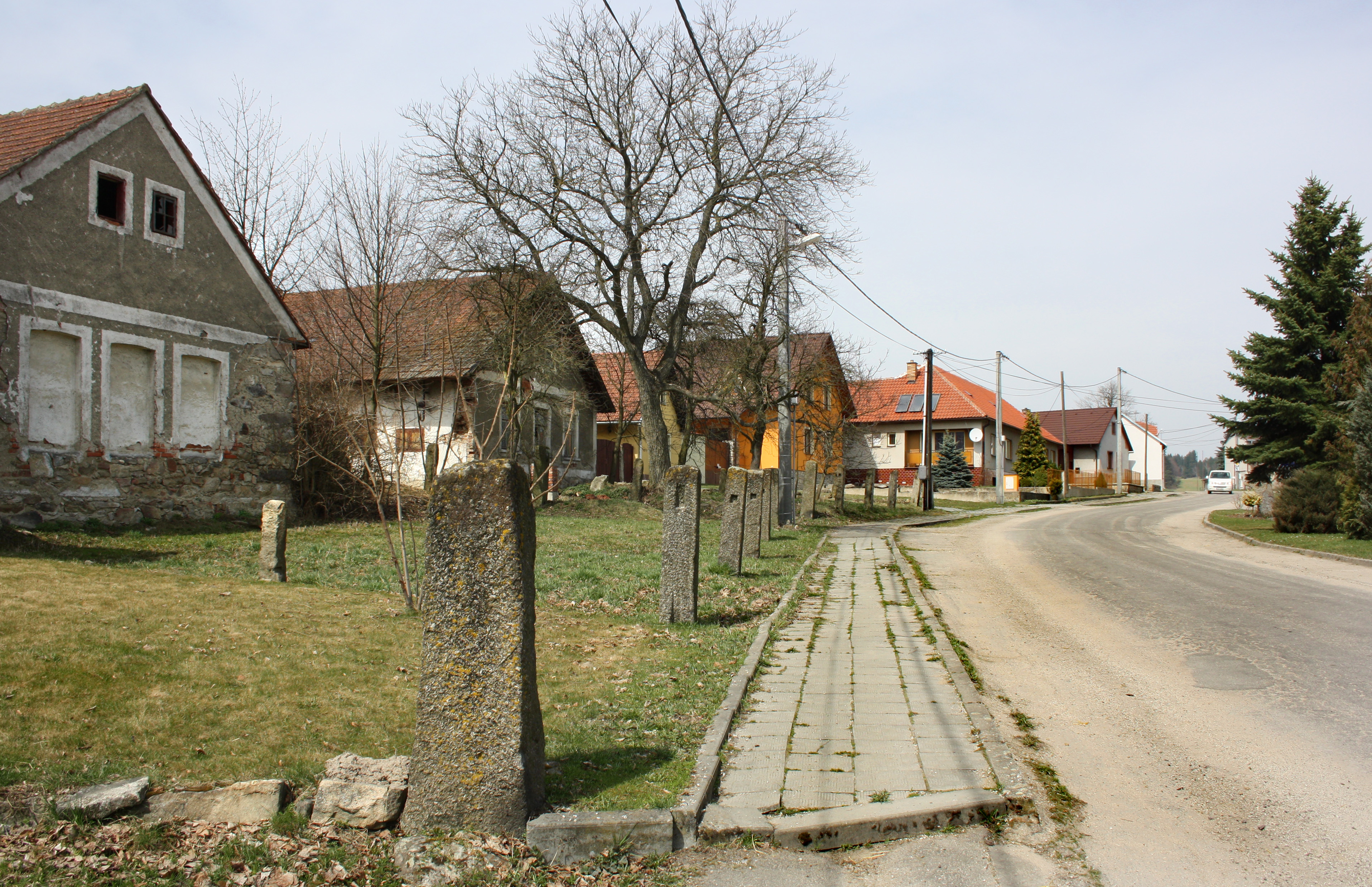 Road to Kamenice in Pavlínov